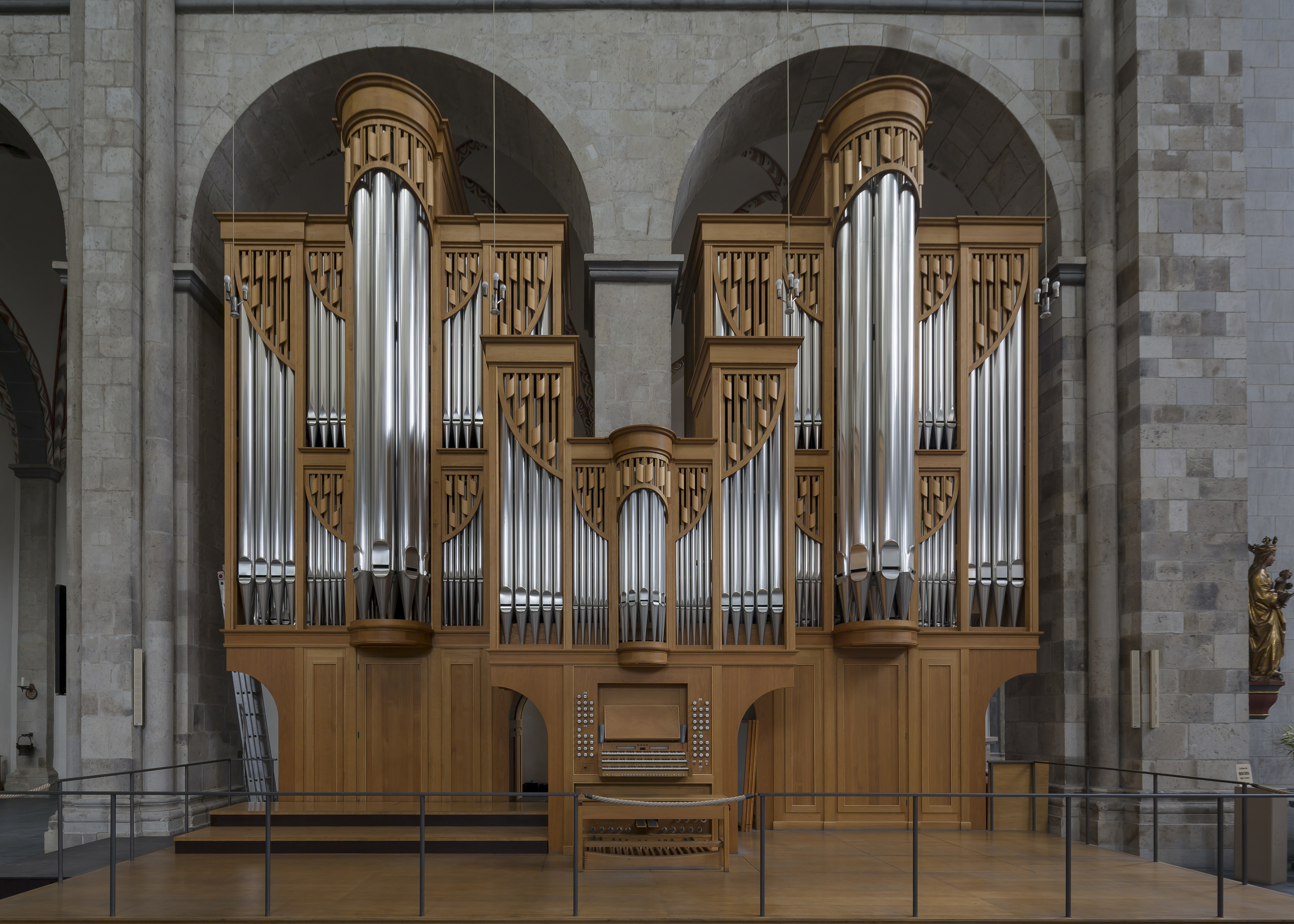 Cologne, Germany: Organ of romanesque church St. KunibertThis is a photograph of an architectural monument.